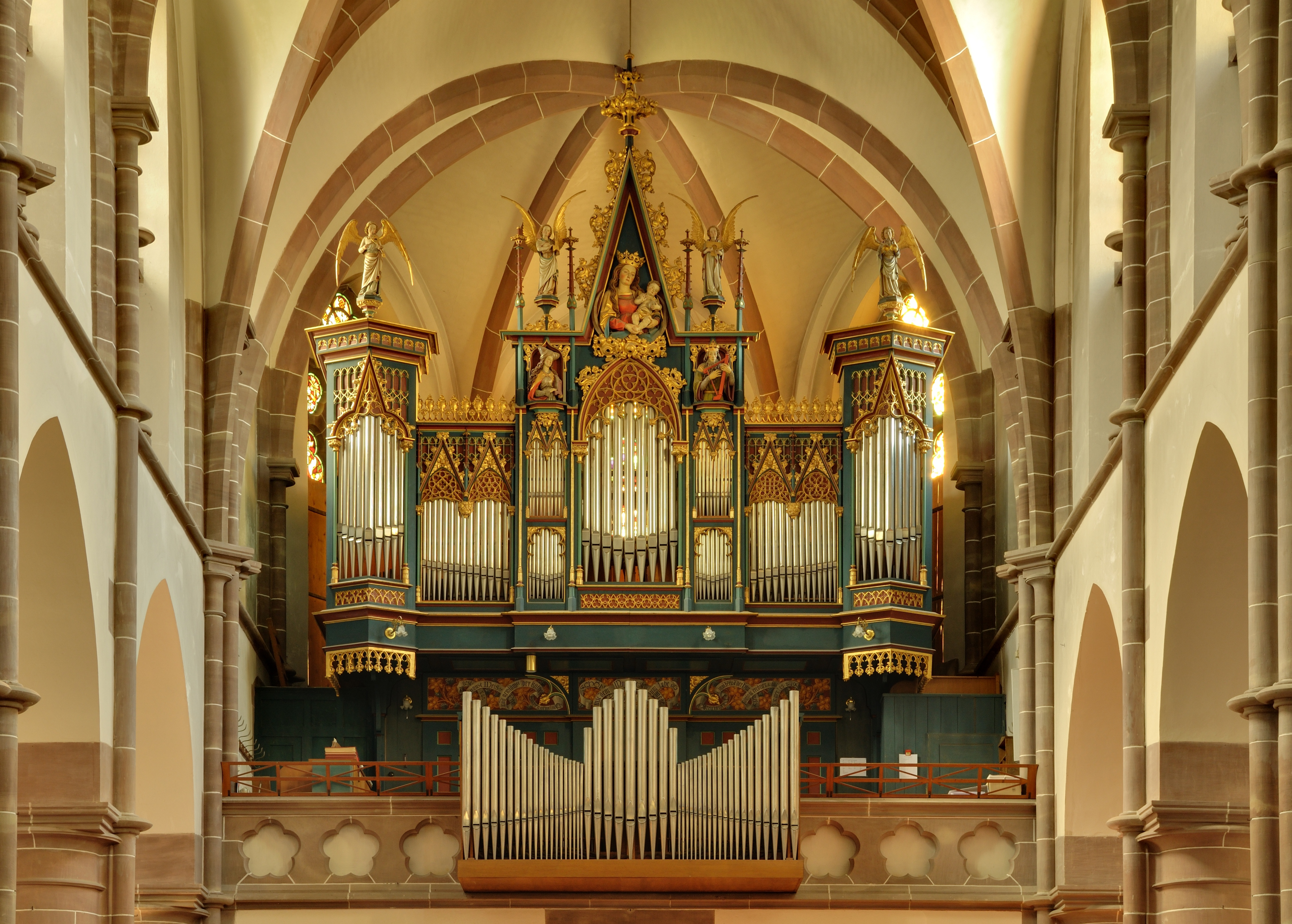 Schönau: Churches of the Assumption